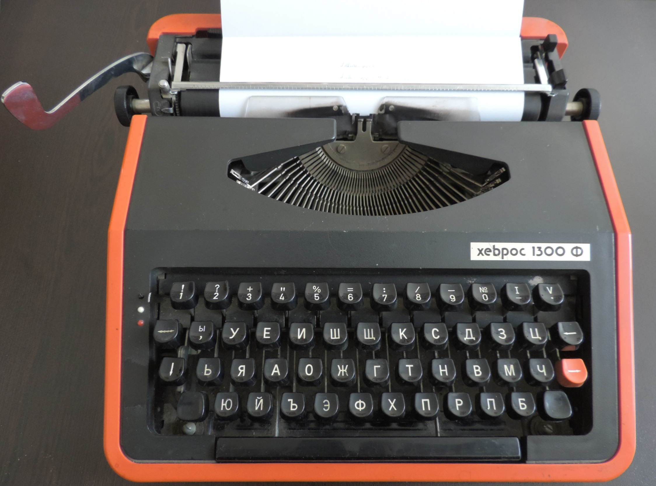 Bulgarian Cyrillic typewriter model "Hebros 1300 F" according to the Bulgarian State Standard